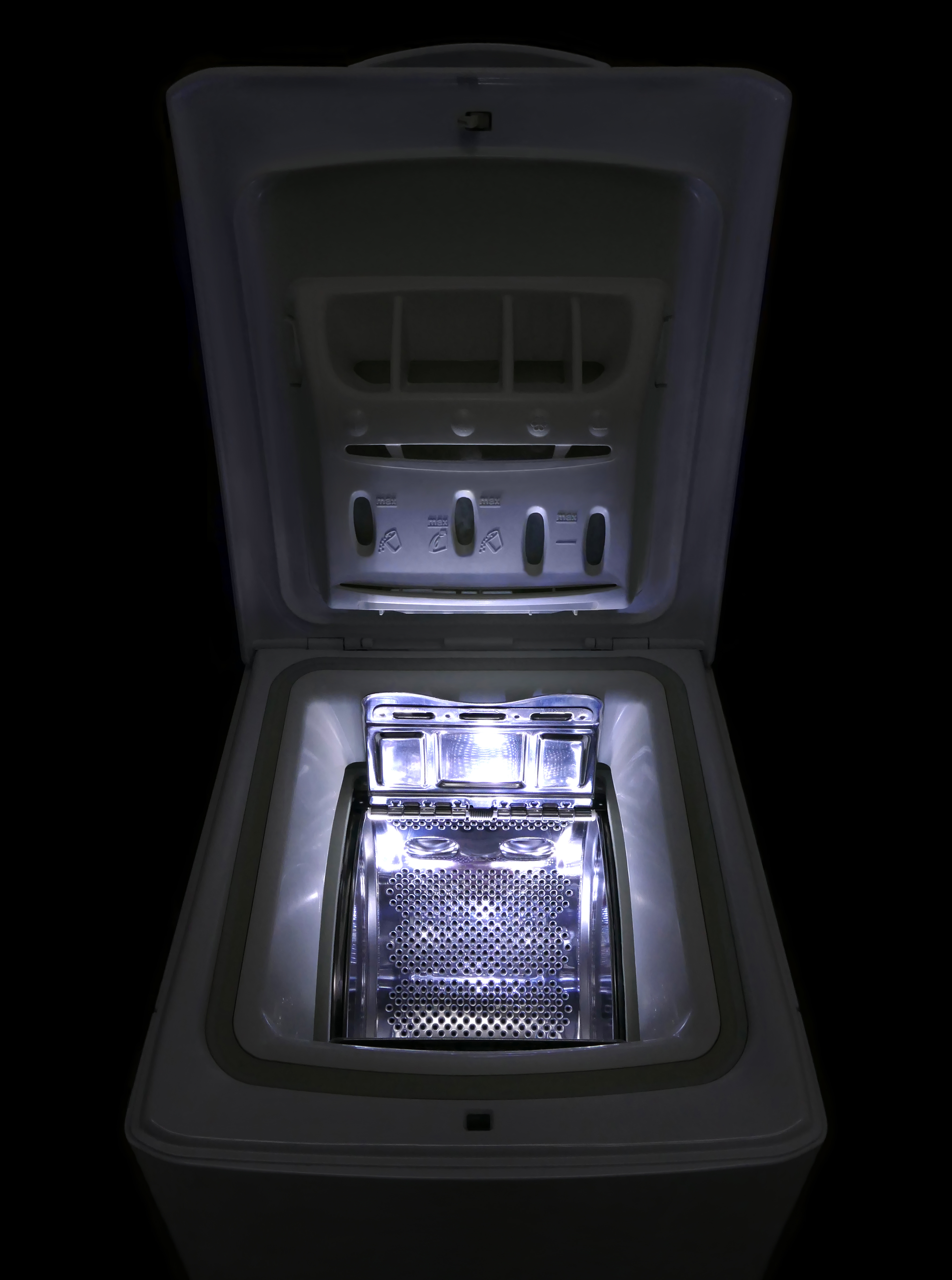 An open top-loading washing machine, Bosch Classixx 6 illuminated from within at an undisclosed location in Lysekil Municipality, Sweden. The machine is illuminated by four small LED flashlights, three in the drum and one above the object.